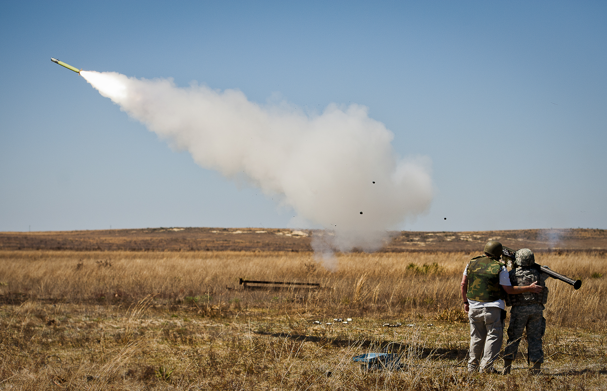 Col. Terrence Howard fires a FIM-92 Stinger during testing March 14, 2014, at Eglin Air Force Base, Fla. Stinger Based Systems, a division of the Army’s cruise missile defense system unit, test-fired more than 30 Stingers at aerial and fixed targets on the base’s range throughout the week. Howard is the Cruise Missile Defense Systems project manager. (U.S. Air Force photo by Samuel King Jr./Released)